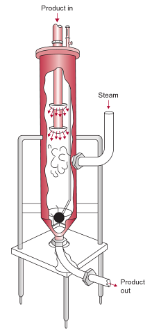 Diagram of how a steam infuser works in pasteurization